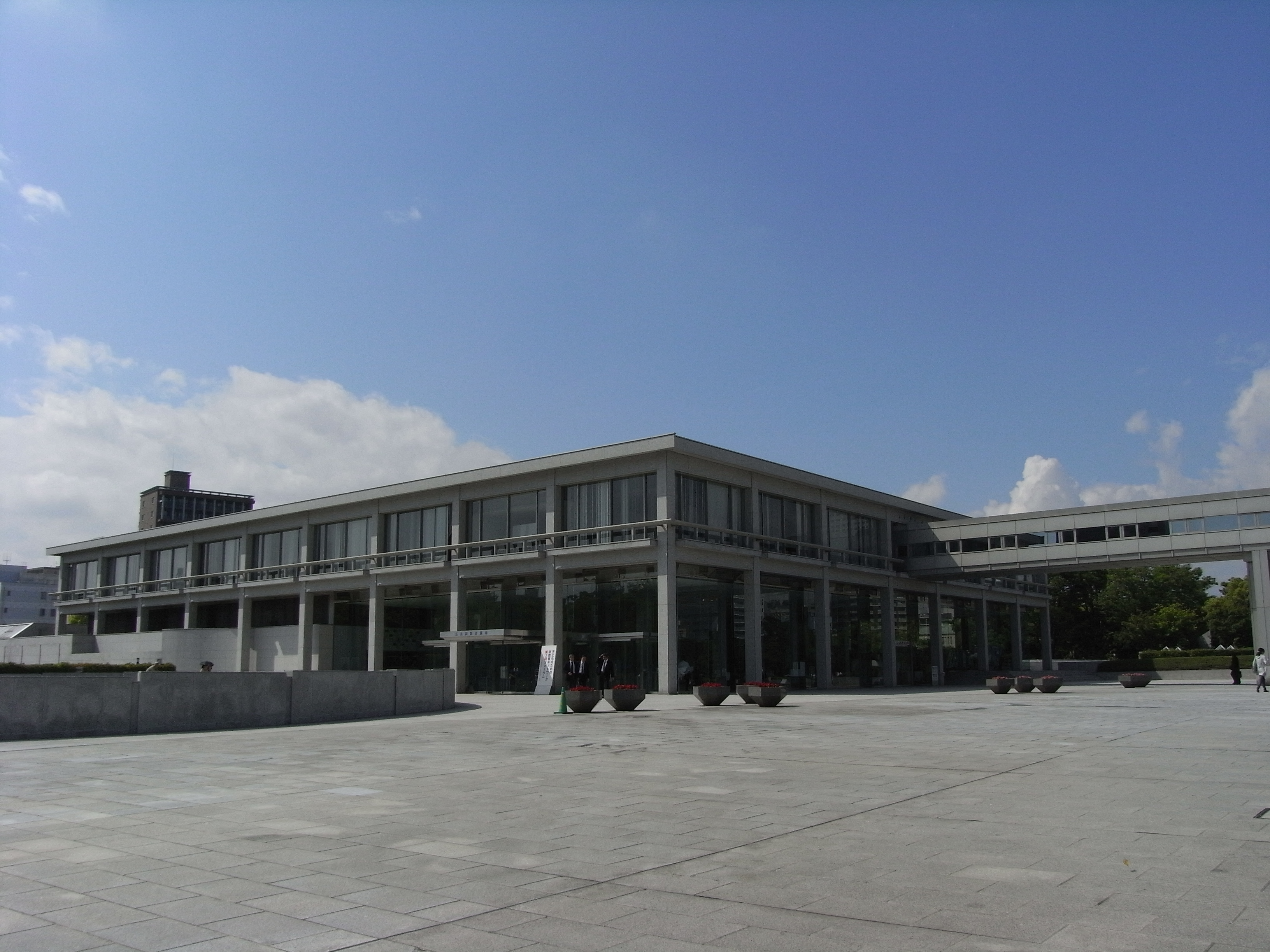 International Conference Center Hiroshima (広島国際会議場)